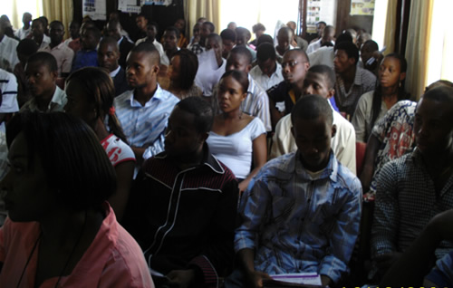 Mr. Anthony-Claret Onwutalobi lecturing University students and parents in Nigeria on the importance of education